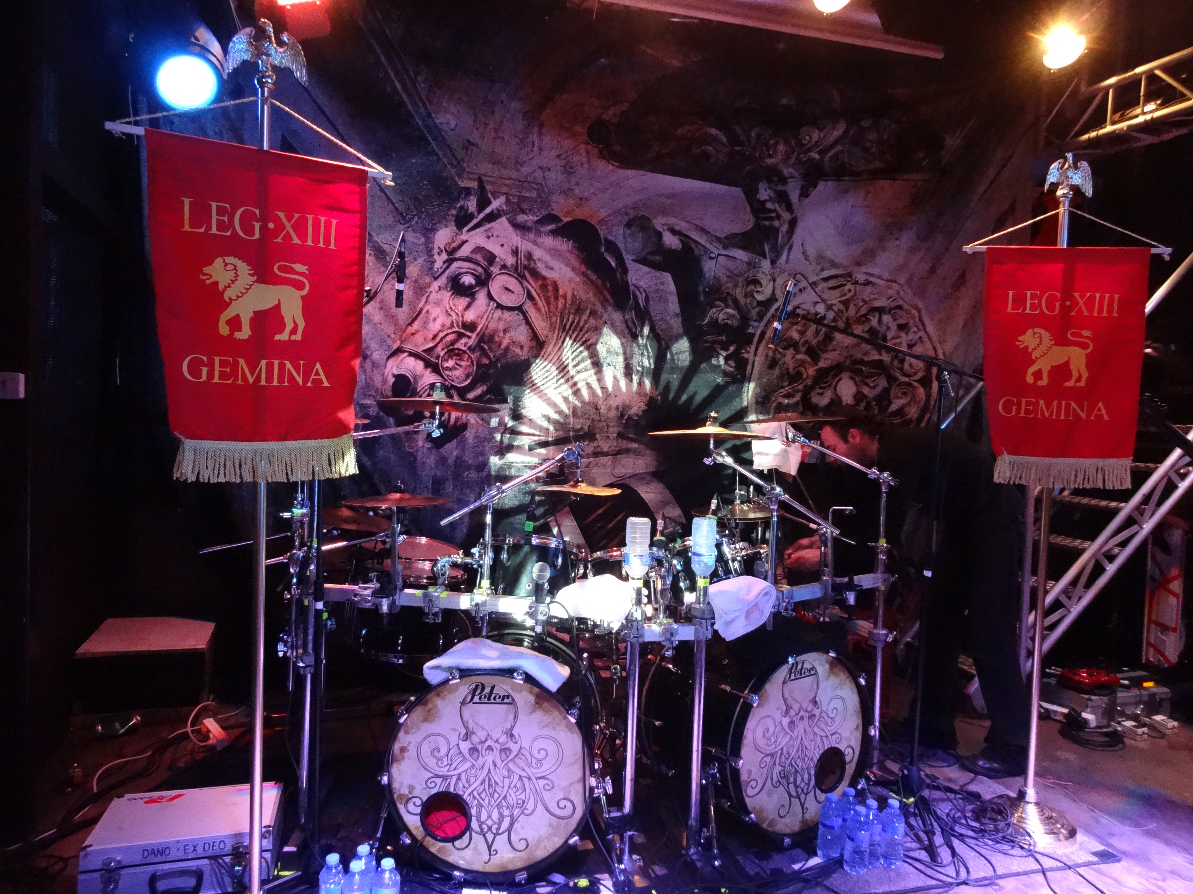 Roman flags of Ex Deo + drums